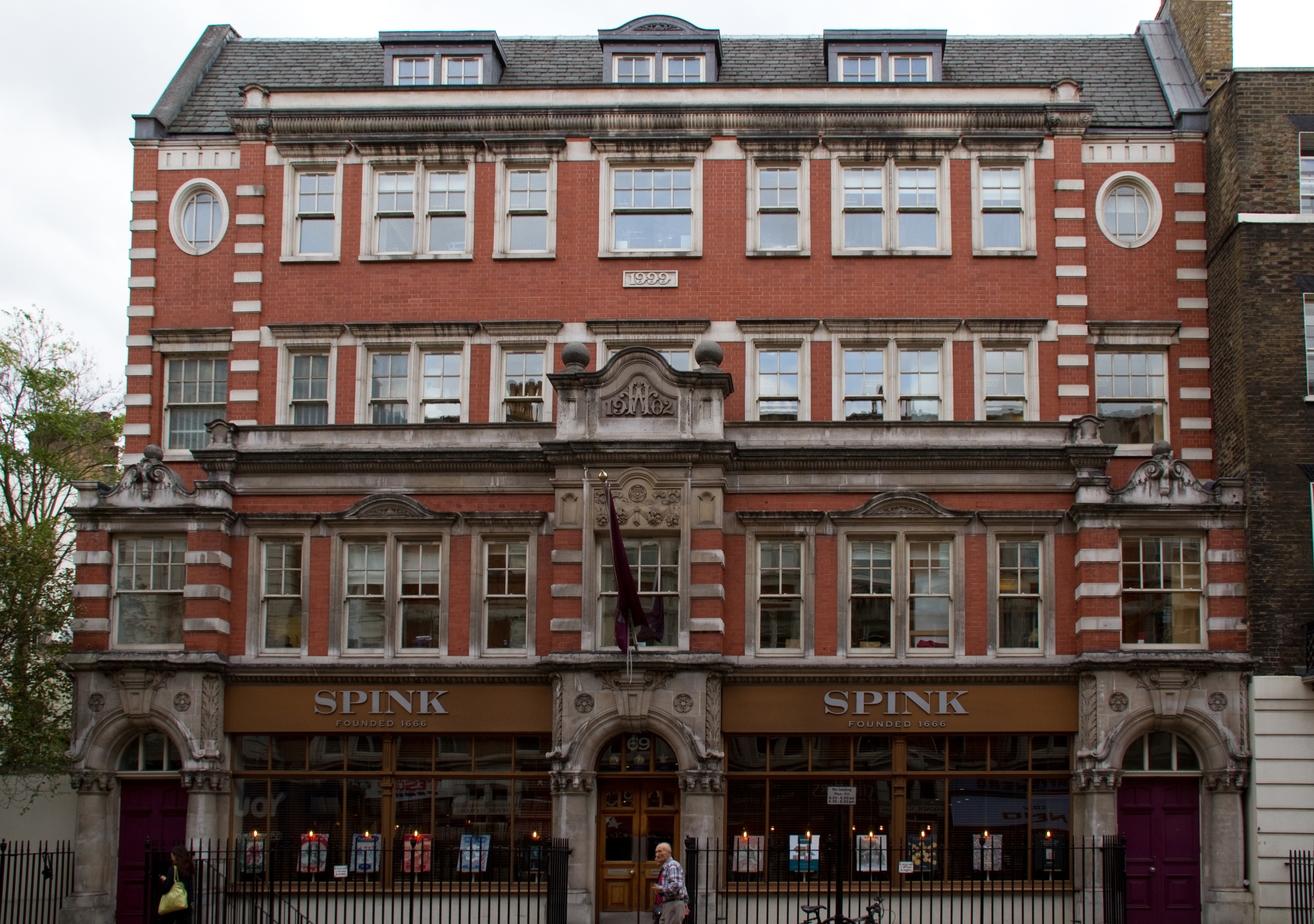 Spink UK, 69 Southampton Row, Bloomsbury, London WC1B 4ET. Spink and Son Ltd, founded in London in 1666. collectables auction house. Specialises in auctioning stamps, coins, banknotes, medals, bonds & shares, autographs, books and fine wines.